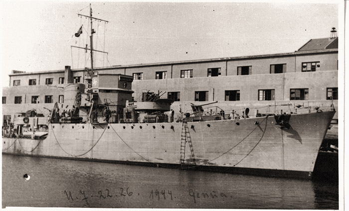 GER UJ 2226 (ex C 39 Artemide) MG